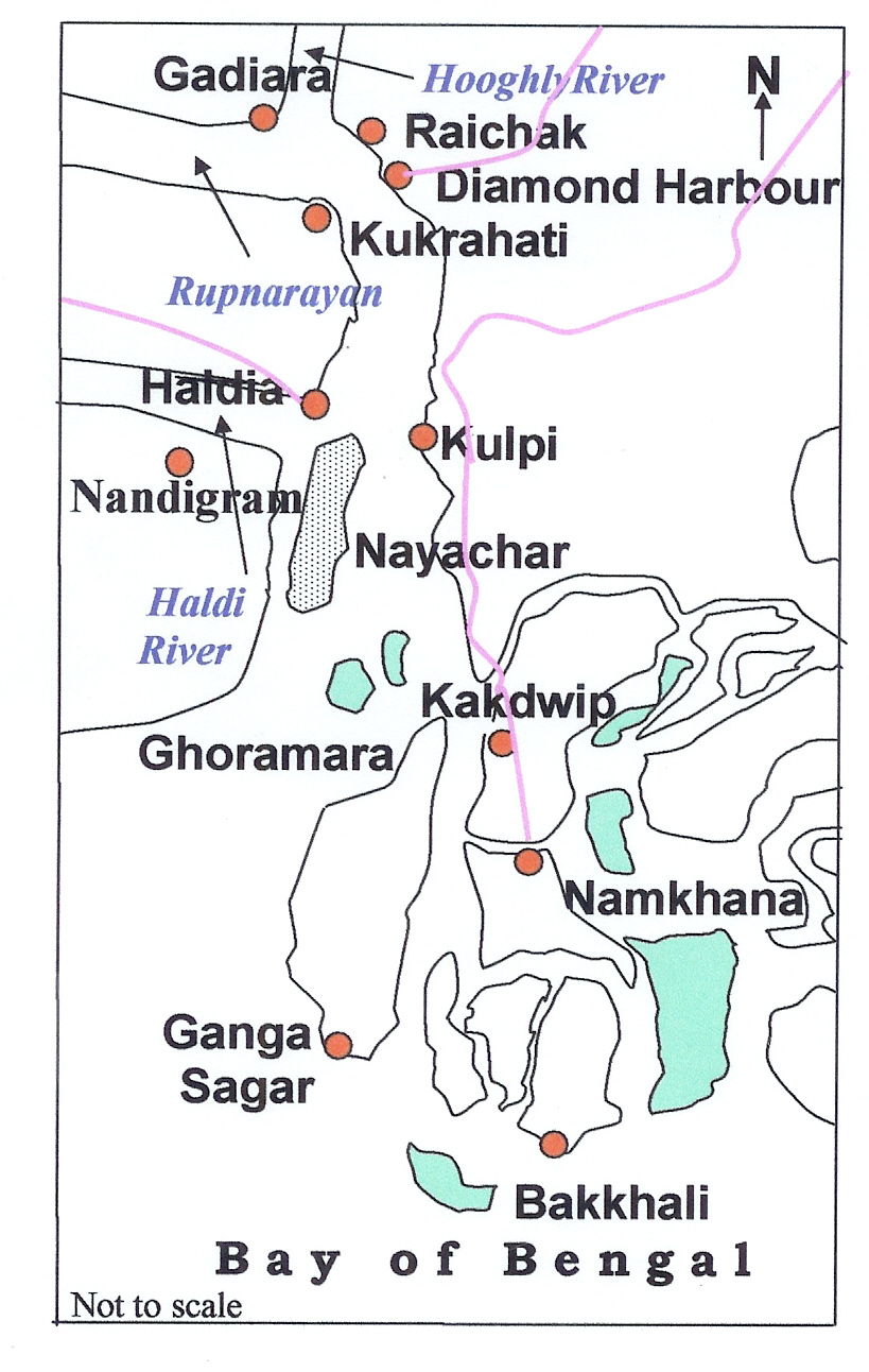 Own map